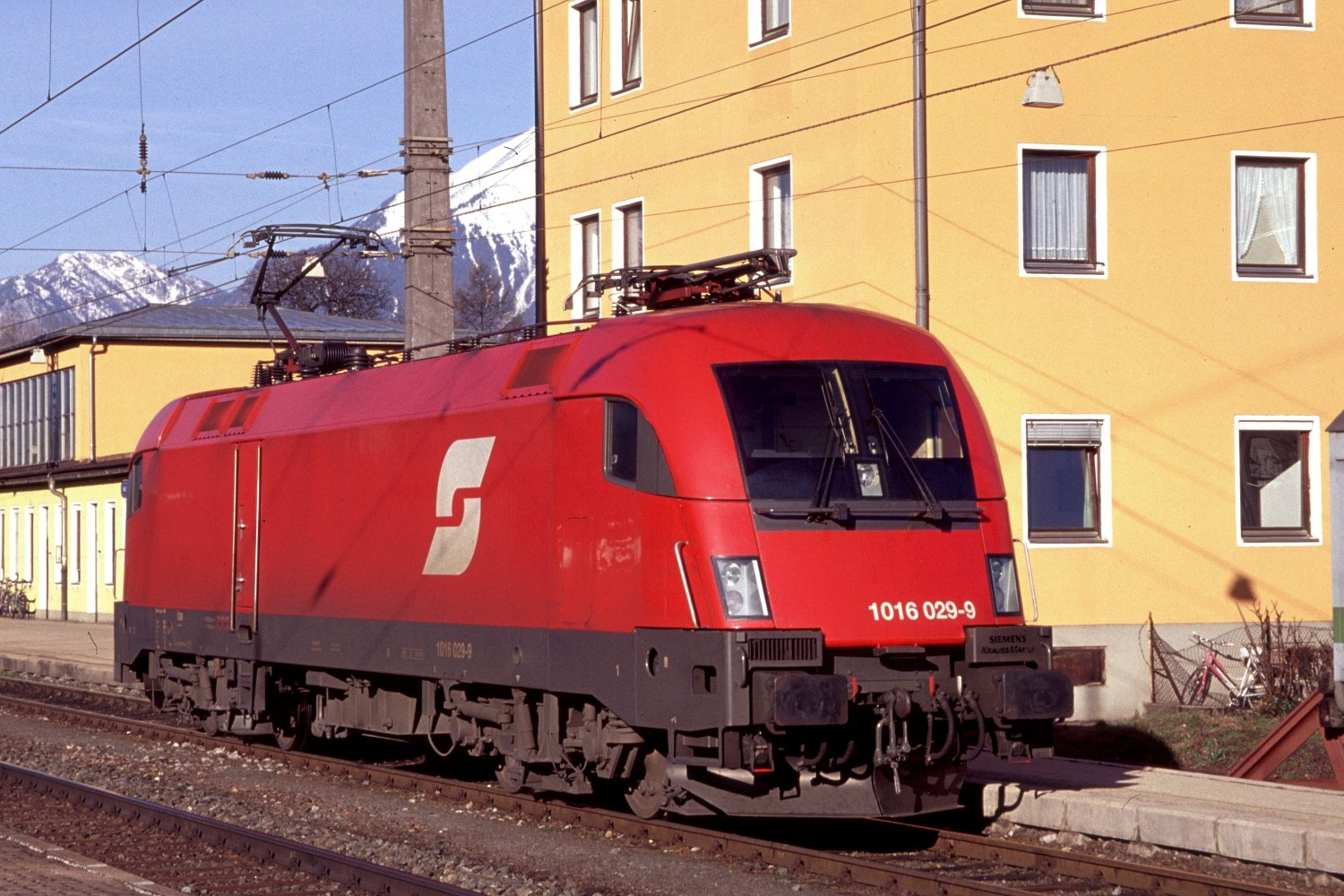 en: Description: ÖBB 1016 029-9 in Hall in Tirol station, in Austria this type of electric engines is nicknamed "Taurus"